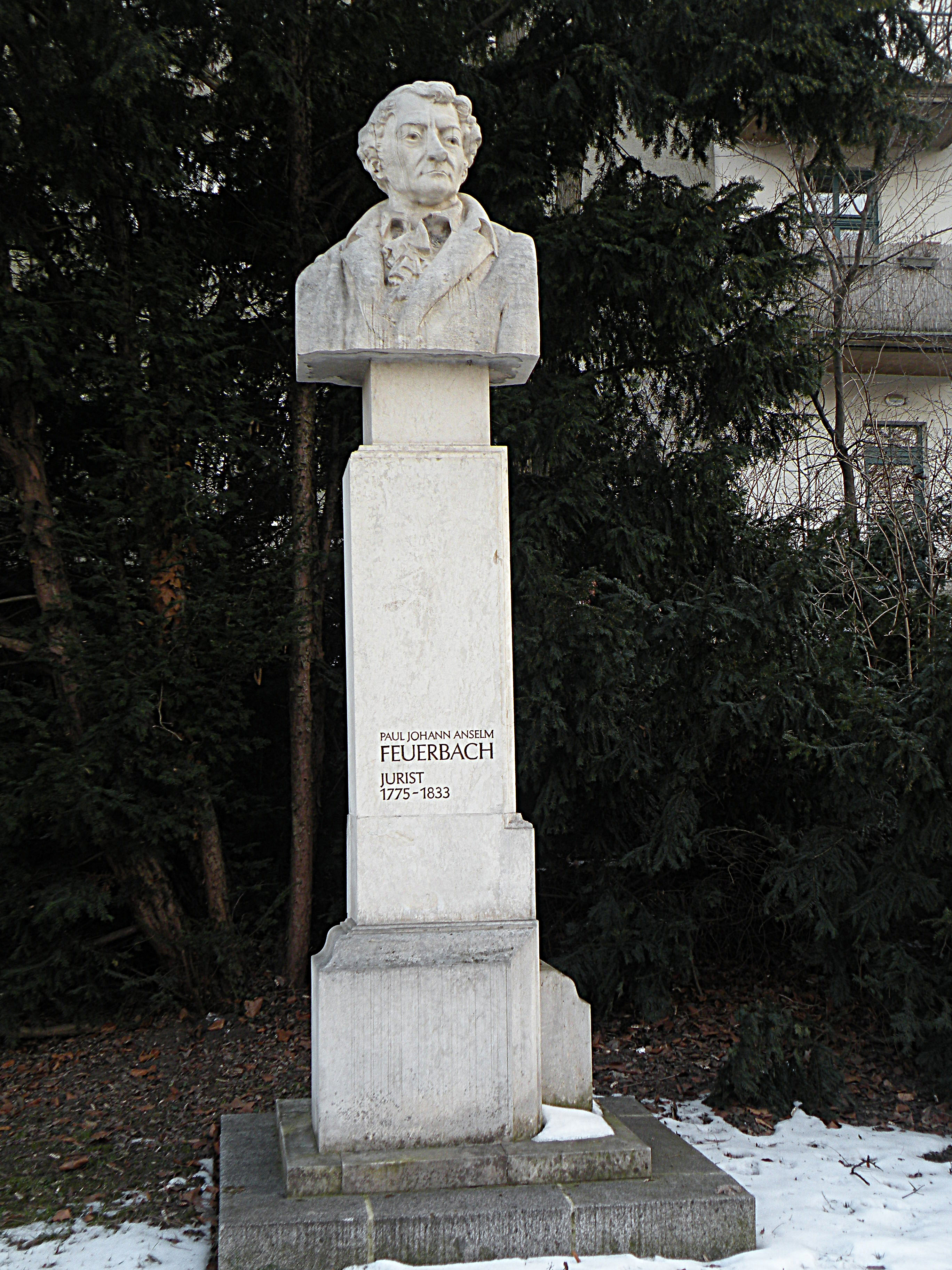 Monument to Paul Johann Anselm von Feuerbach at Fürstengraben in Jena, Germany